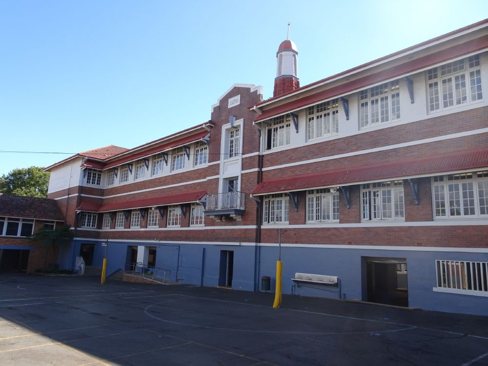 650050_Block A south elevation